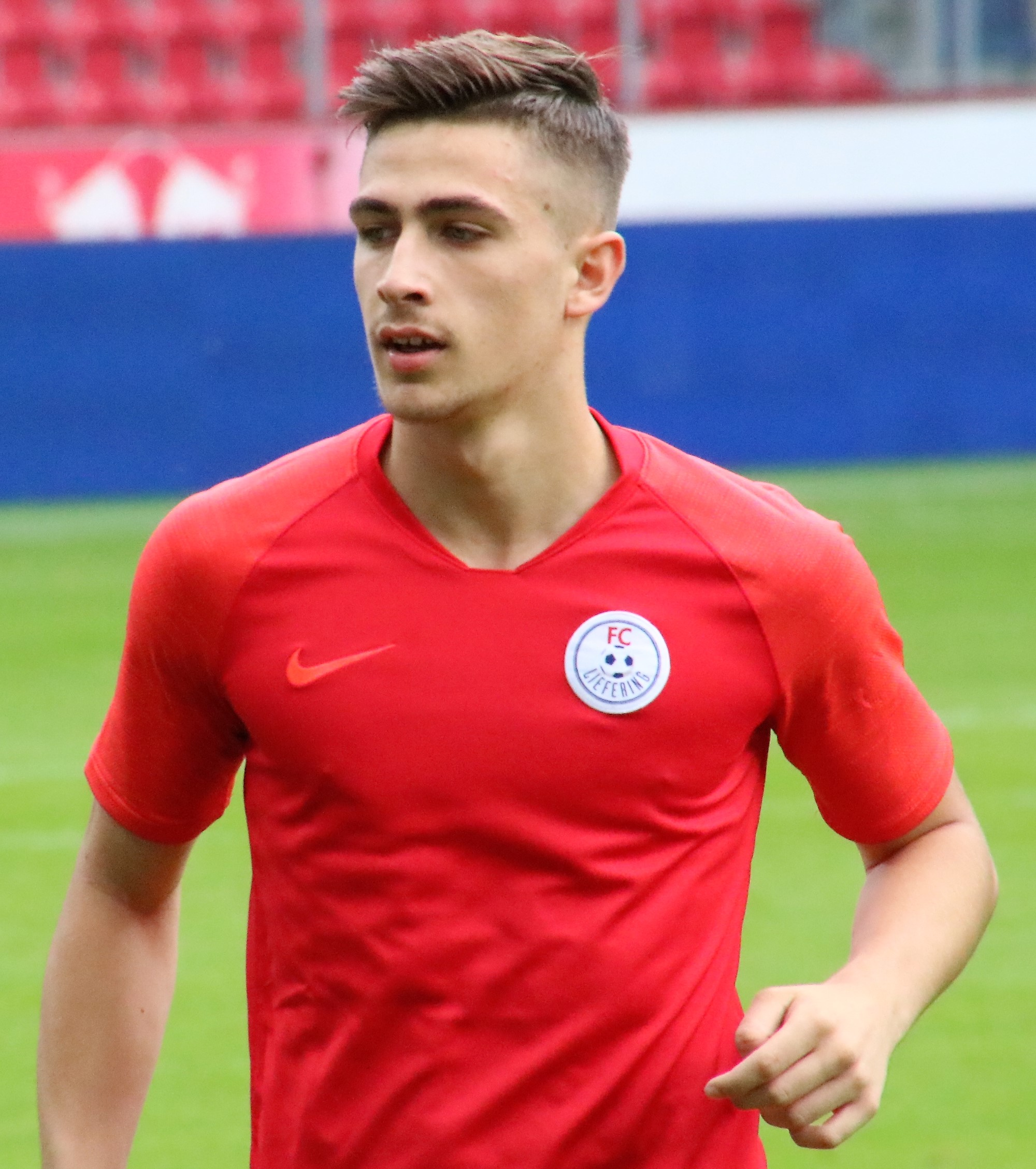 League match Austria 2nd league